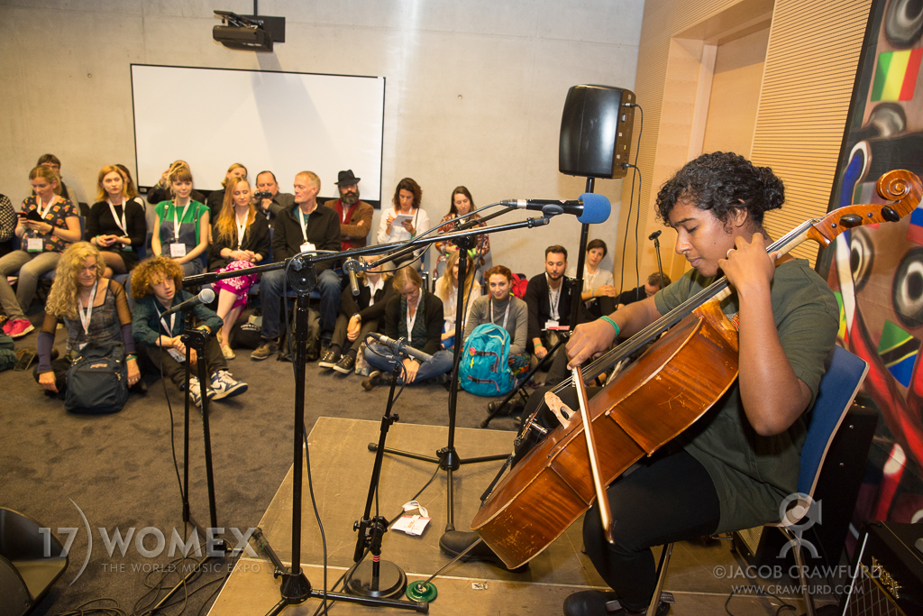 Leyla McCalla EBU Radio Session at WOMEX 17 by Jacob Crawford